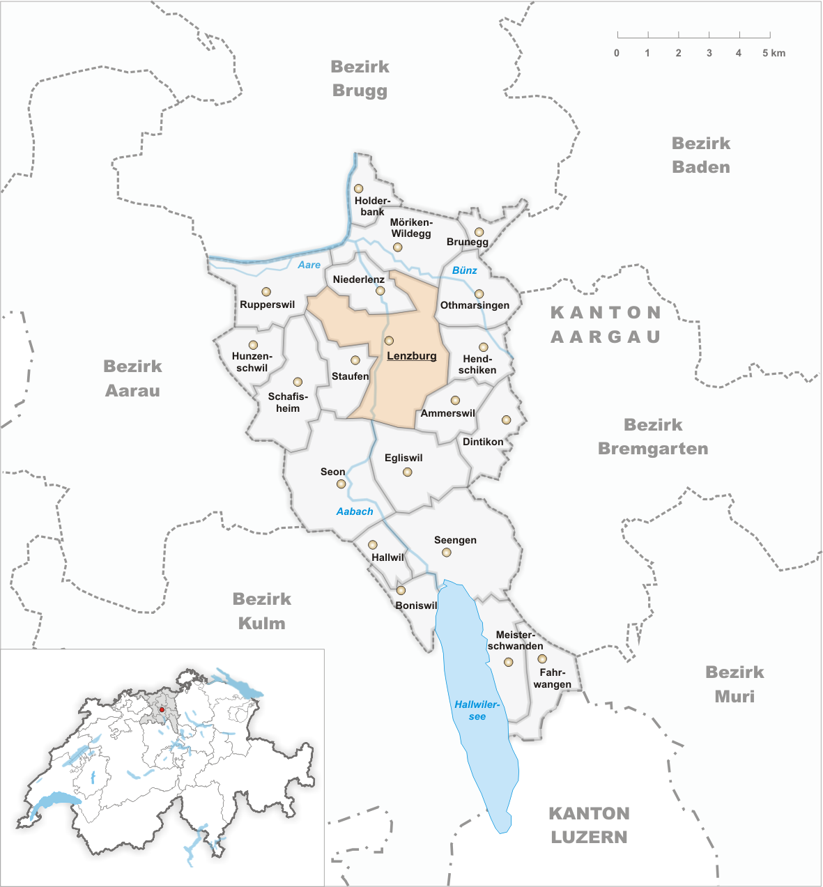 Municipality Lenzburg